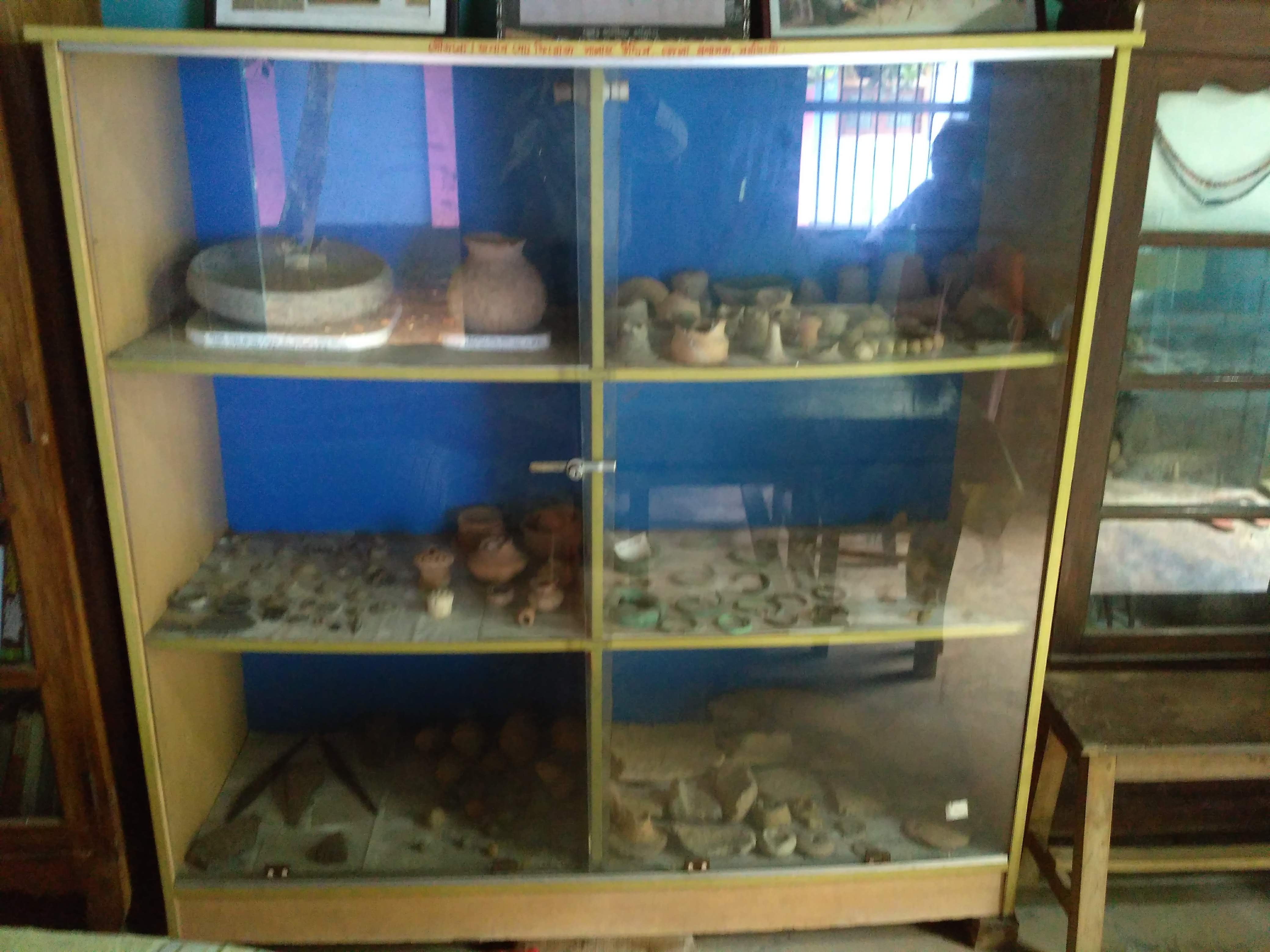 Archaeological artifacts at Bateshwar archaeological museum and library at Bateshwar, Narsingdi, Bangladesh. The museum was established in 1974 by Hanif Pathan, father of Habibullah Pathan.